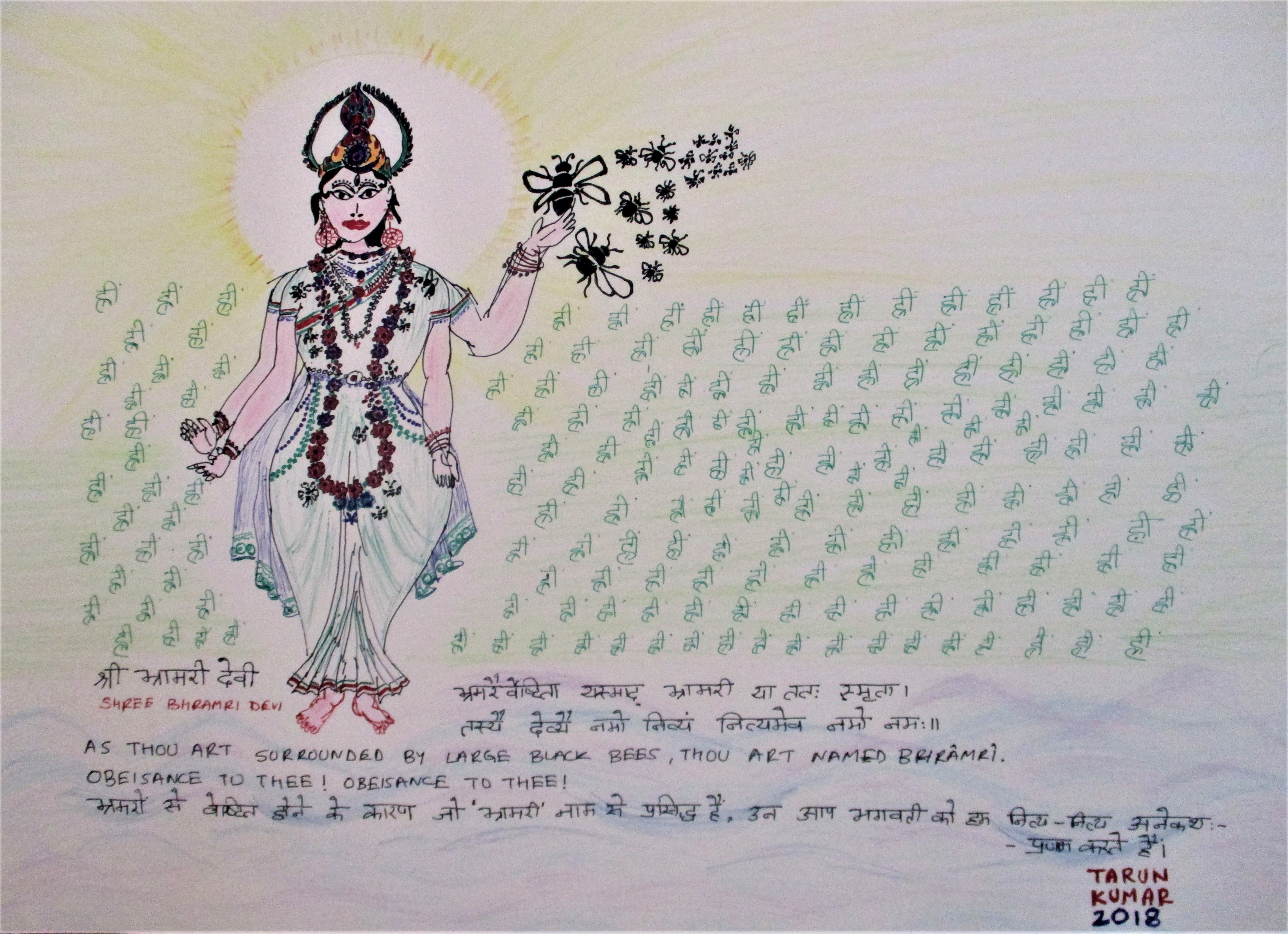 (March 2018 - work in progress) 30 x 40 cm. Office pens and common pencils on art paper. Interpreting answers to - 1. What are the foundation and divine underpinnings of the Bhramari Pranayam Yoga? 2. What is the implied allegory? 3. Why do so many mantras use the sound / beej of 'Hrin'?